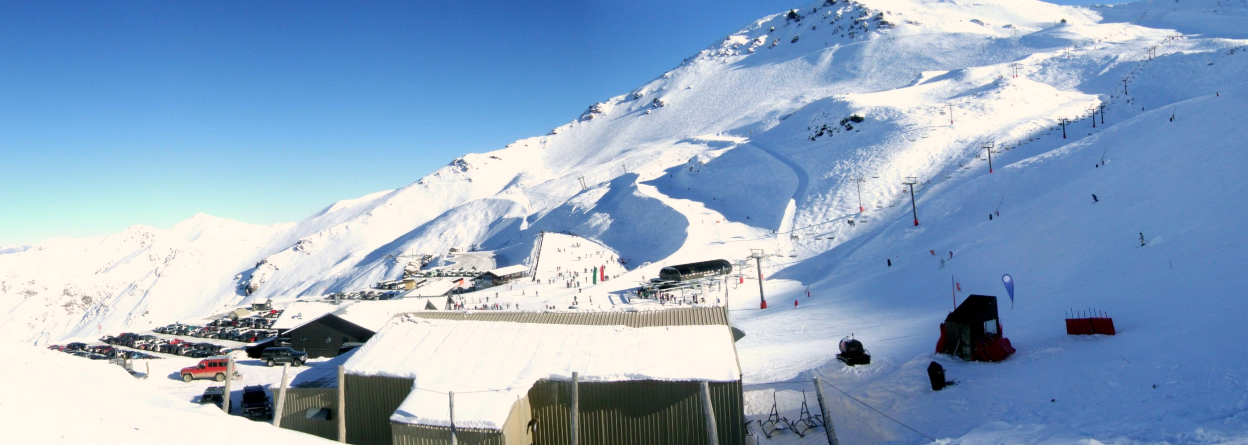 View of Mt Hutt ski area from above equipment shed. Panorama from 6 images.